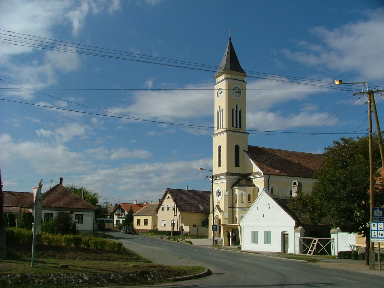 Hegykő; Michael archangel church (local monument) and traditional dwelling house (white, local monument). Front of the church Michael archangel's sculpture (national monument) This is a photo of a monument in Hungary, Identifier: 4444